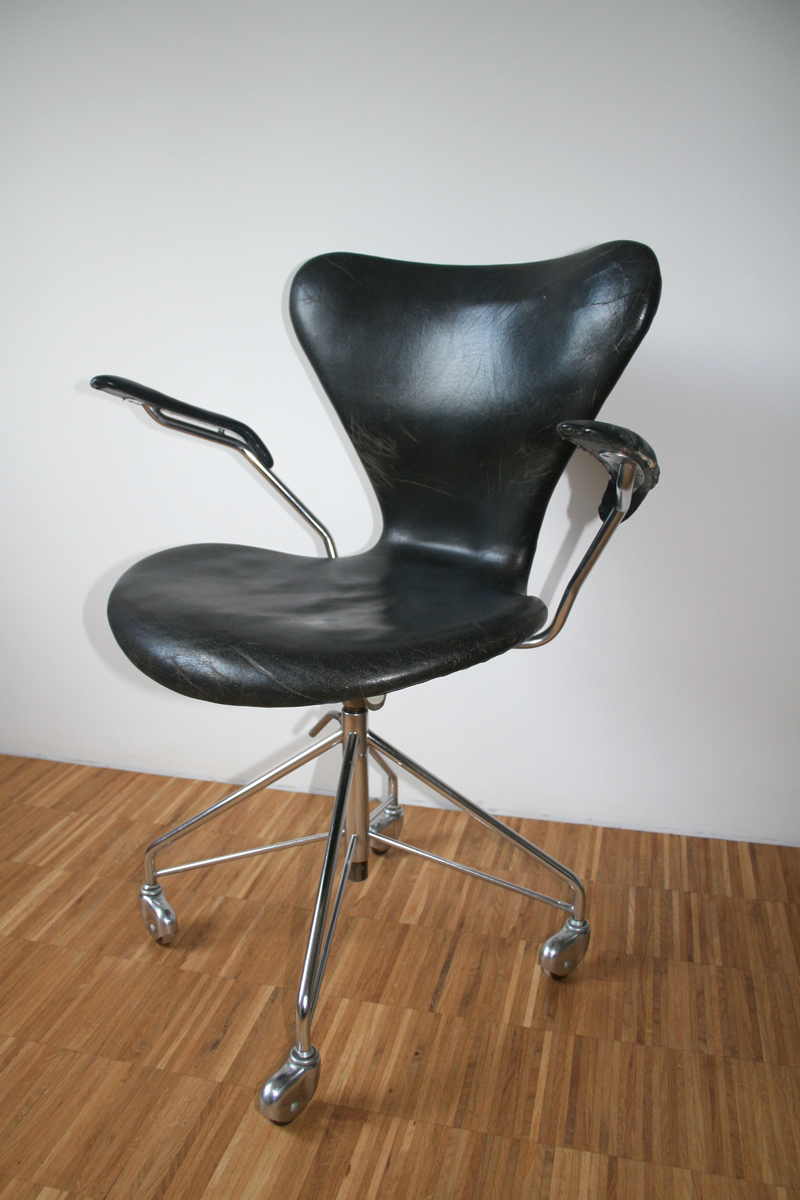 Seven chair (3217) designed 1955 by danish architect Arne Jacobsen.